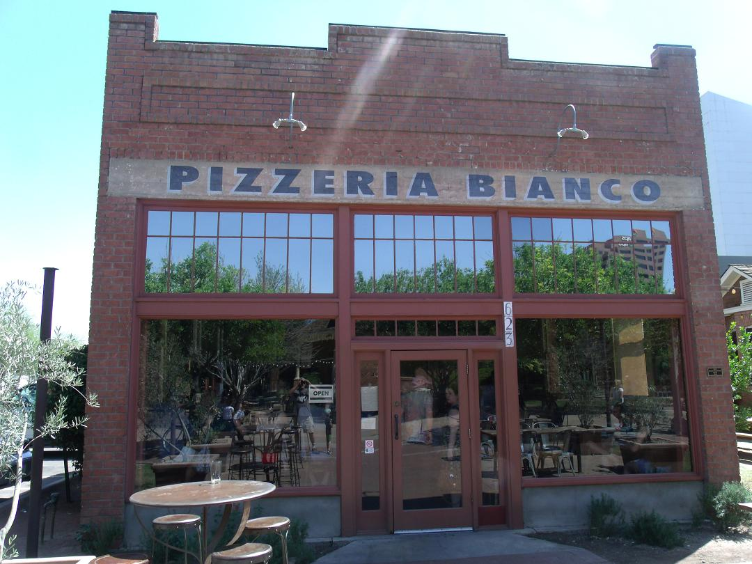 The Baird Machine Shop built in 1920. It is now part of Phoenix's Heritage Square and houses the restaurant Pizzeria Bianco. It was listed in the National Register of Historic Places in 1985. Reference number 85002047